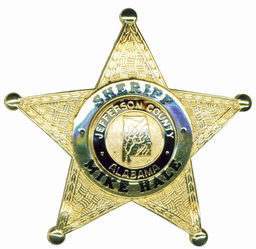 Sheriff's Badge